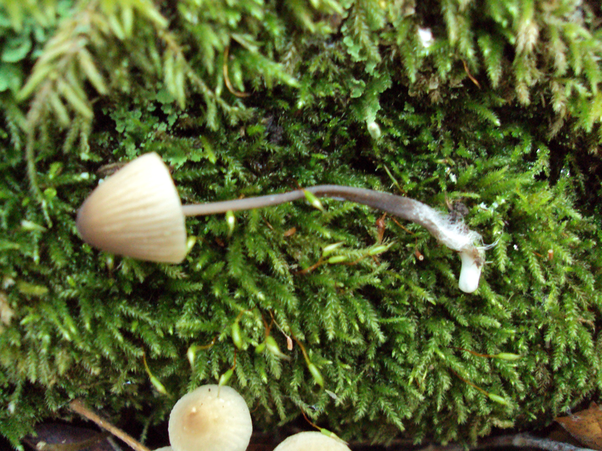 A fruit body of the fungus Mycena galopus (Pers.) P. Kumm. Specimen photographed in San Pablo Reservoir, Contra Costa Co., California, USA. Notes: "These were growing densely on a well decayed branch under live oak, Quercus agriflolia, in moist shady conditions."